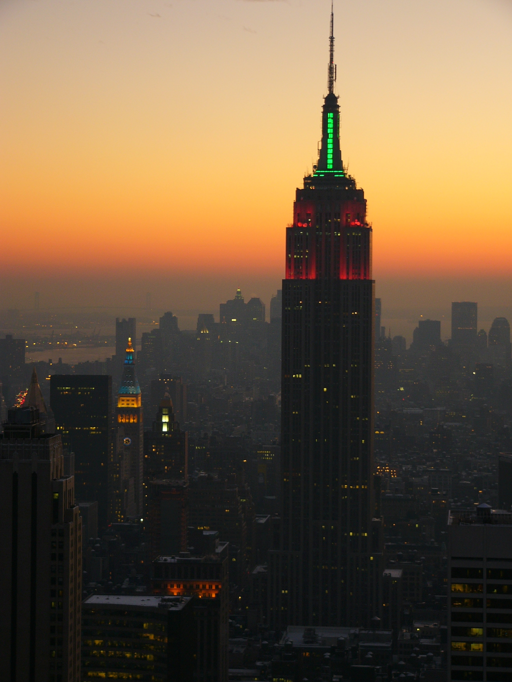 Empire State Building, New York City, USAFrom the 'Top of the Rock'